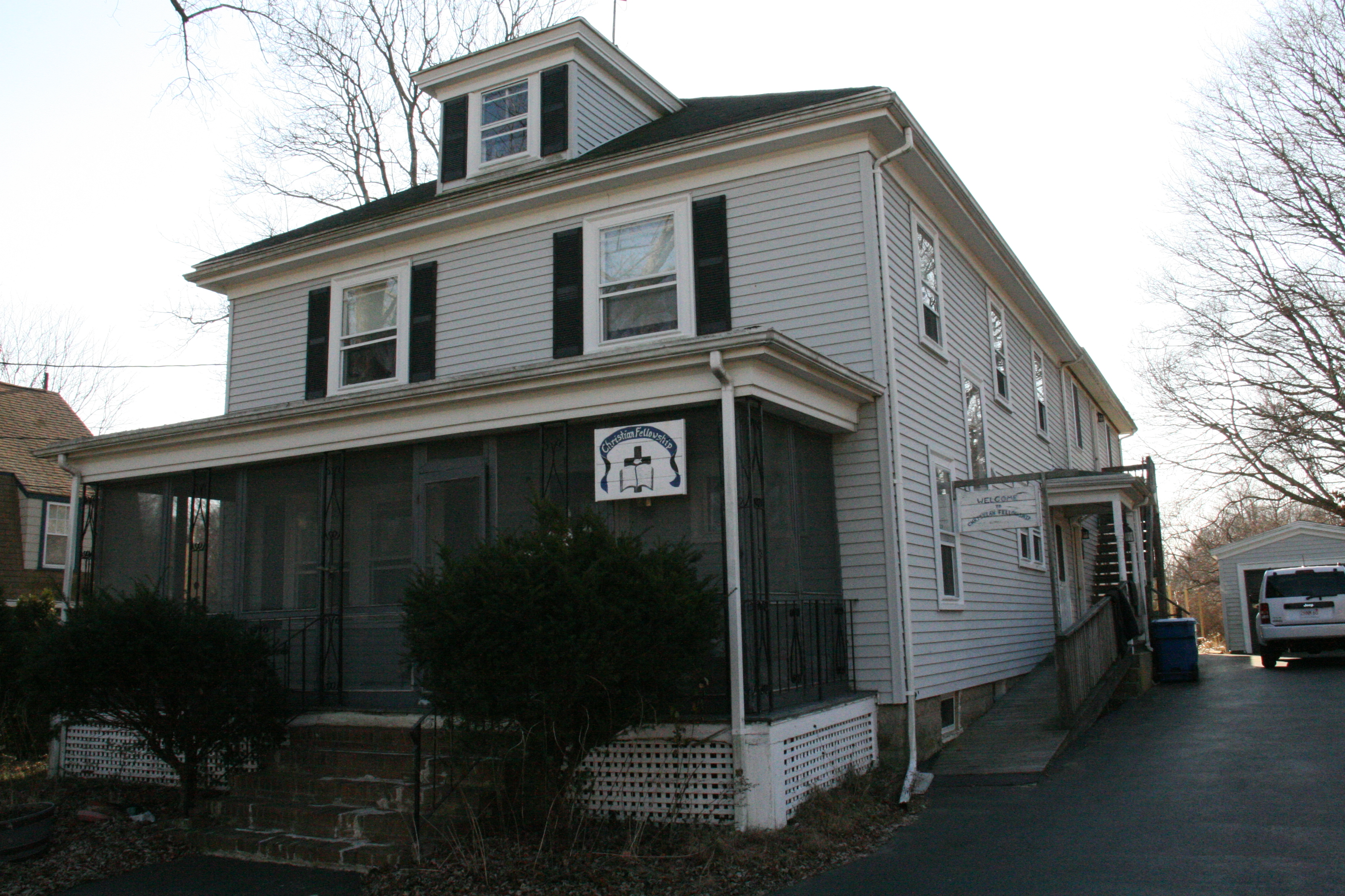 Bridgewater University 29 Shaw Rd Bridgewater Ma